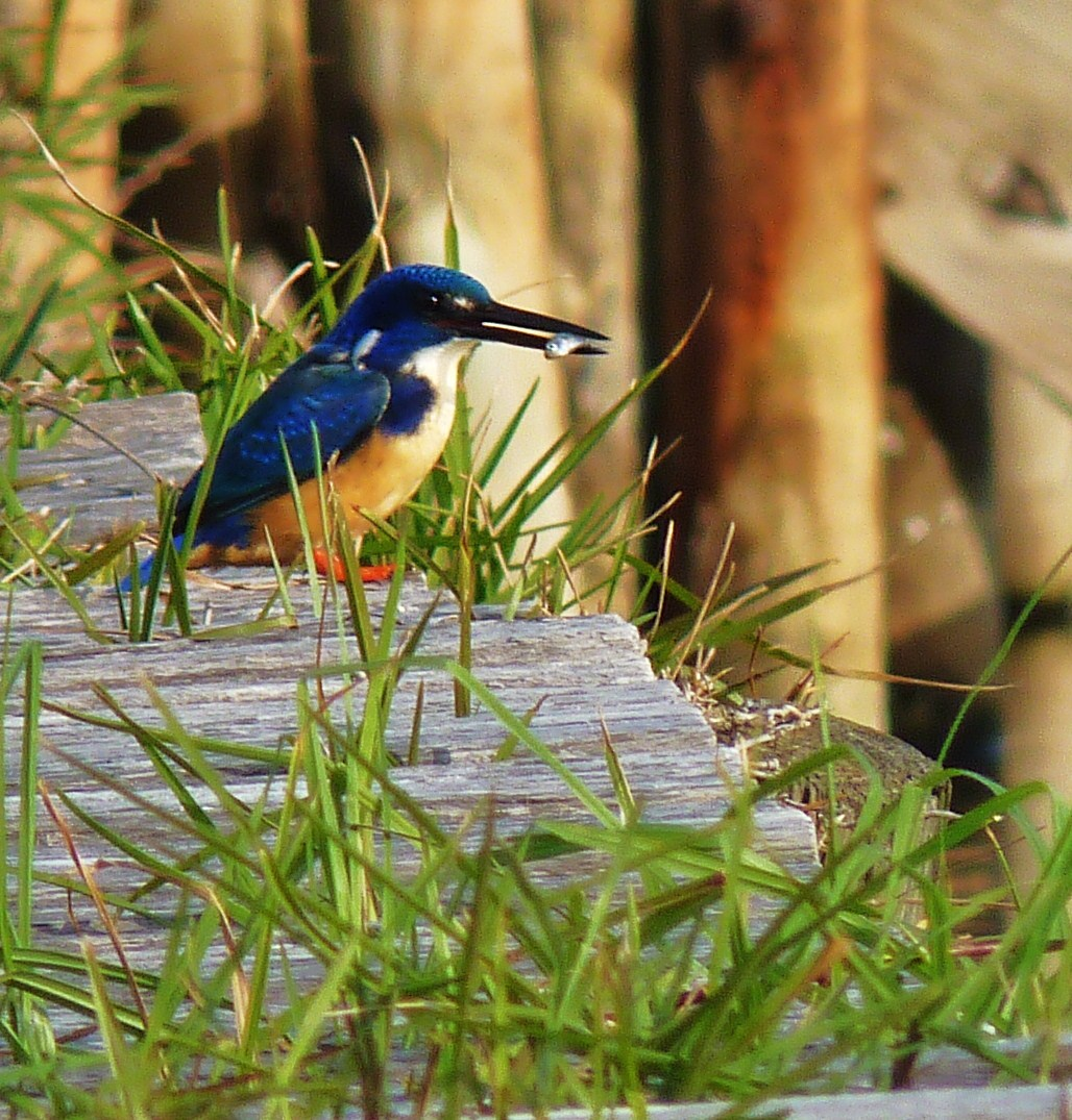 A Half-collared Kingfisher in Knysna, Western Cape Province, South Africa. It has a fish in its beak.